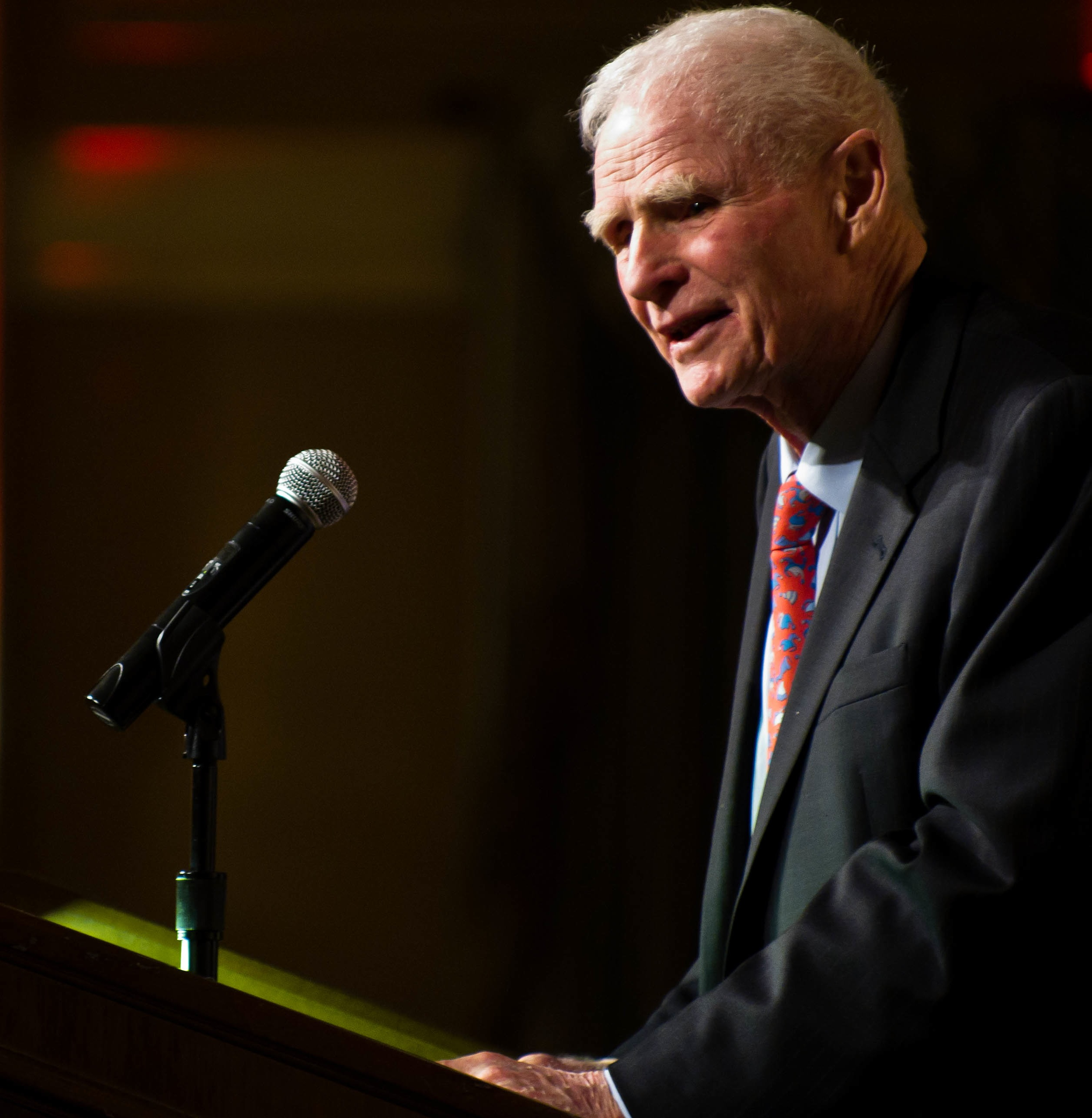 On May 16, 2011, The Citizens Campaign honored governor Brendan Byrne for a lifetime of civic service.